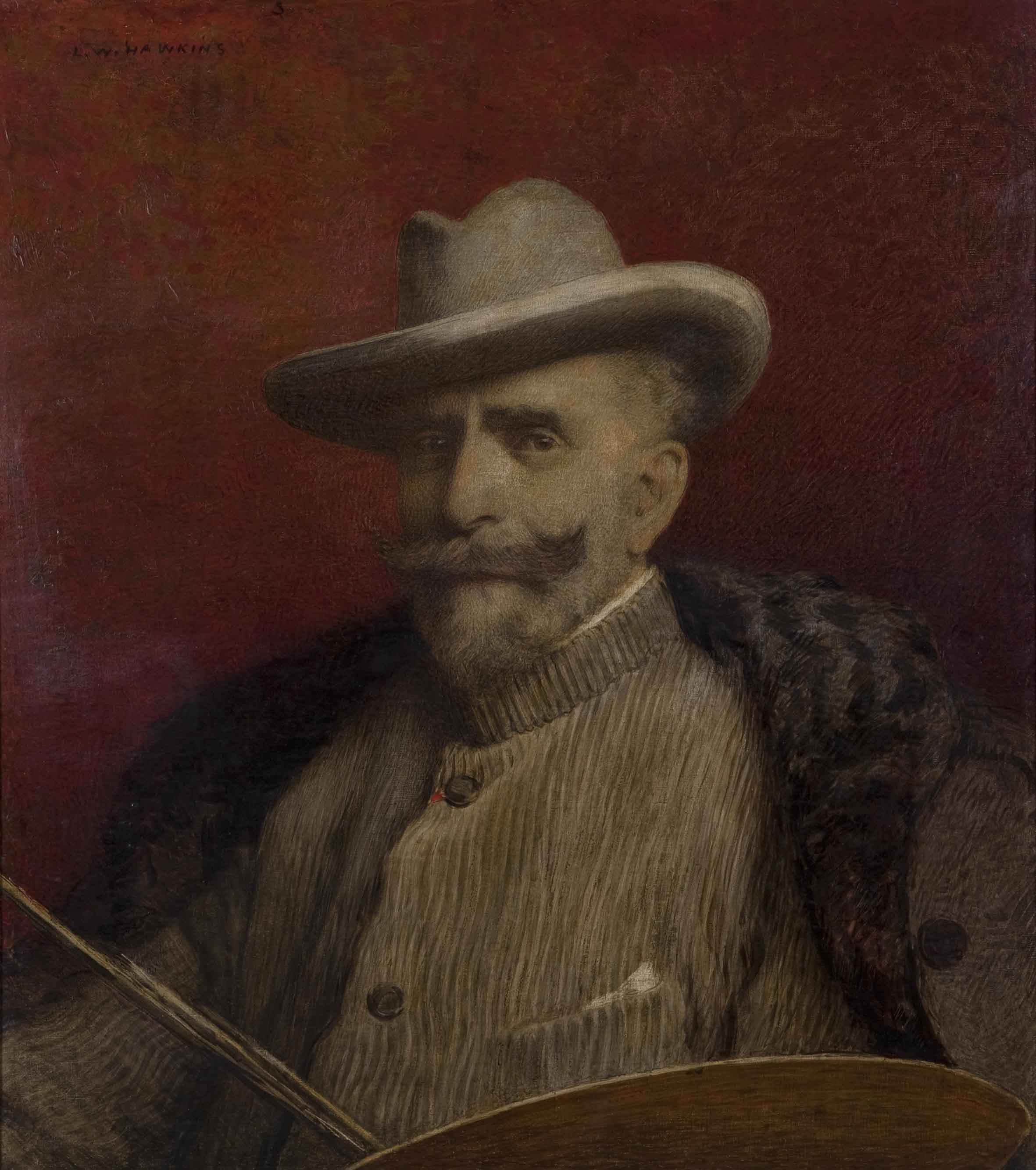 Selfportrait with palette